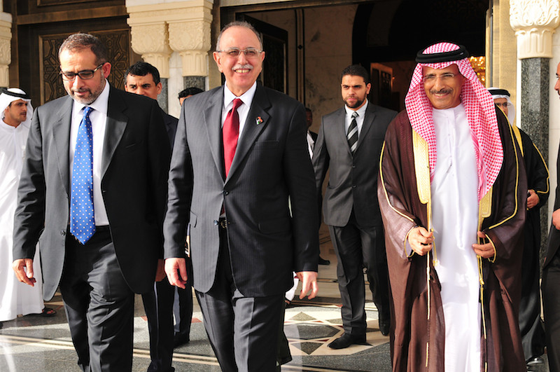 Libya Prime Minister, Dr Abdurrahim ElKeib, visits the UAE with a delegation of 9 ministers.